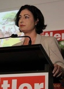 Terri Butler MP at her campaign launch for the 2014 Griffith By-Election